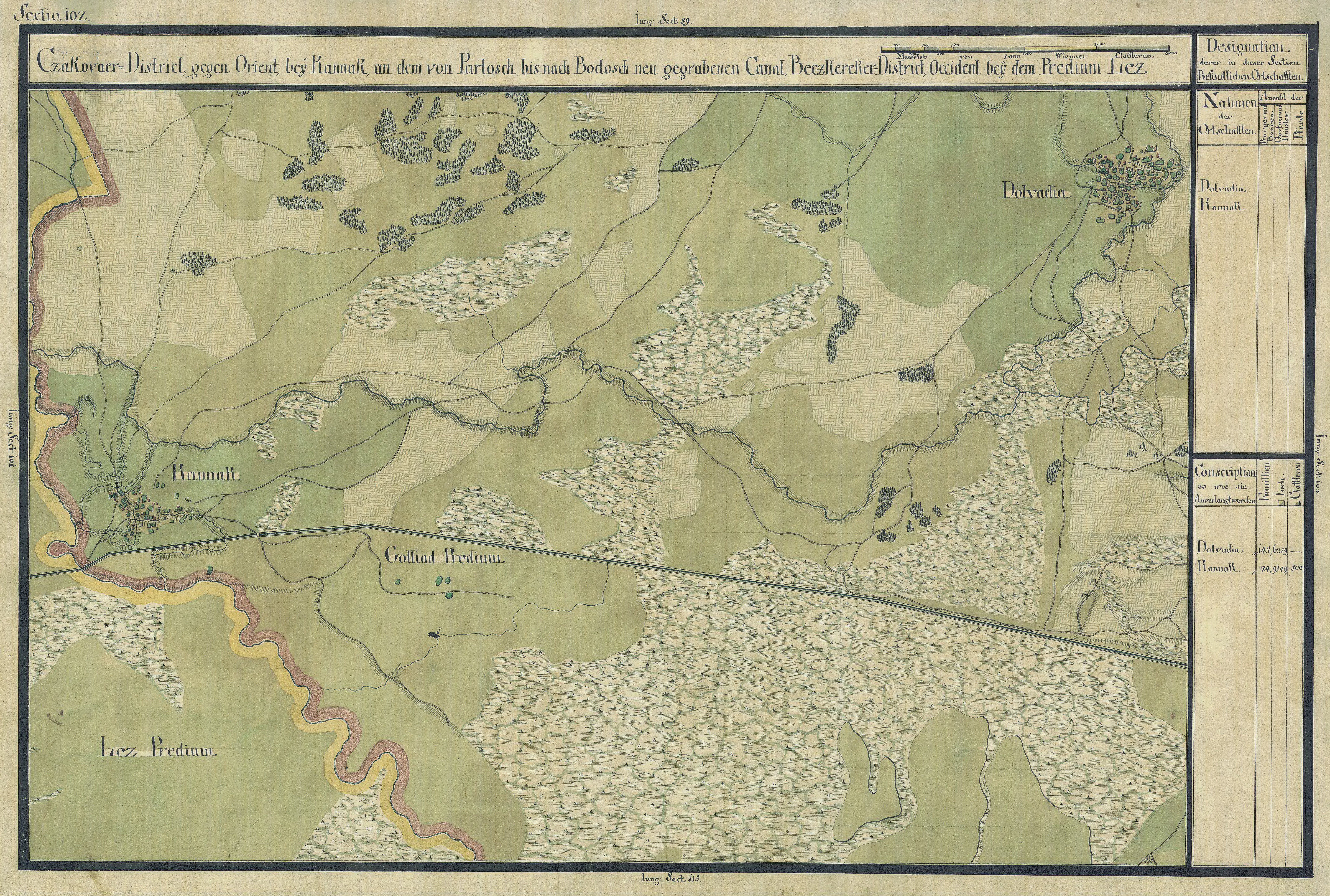 The Banat region in the cadastral maps: Josephinische Landesaufnahme, 1769-72. Josephinische Landaufnahme pg102